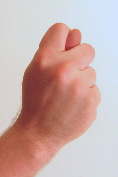 Gesture fist with thumb through fingers. The "fig sign" is an ancient gesture with many uses, including fingerspelling the letter T in American Sign Language.